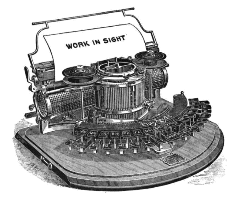 Woodcut of Hammond typewriter from 1880s, from a mail-order catalog for library supplies. It was invented by American journalist James Bartlett Hammond in the 1870s and manufactured by the Hammond Typewriter Co., New York, starting in 1881-1884. This is the Hammond model 1B. Besides the curved keyboard, Hammond machines had other unique features. The typefaces were on two semicircular typewheels, and could be changed, allowing the machine to type in other fonts and languages. Instead of the types striking the paper, a hammer behind the page strikes a rubber sheet, driving the paper into the ribbon and typewheel. The phrase 'WORK IN SIGHT' meant that, unlike most typewriters of the time, the typist was able to see the text as she was typing it. For information, see Richard Milton Hammond, Portable Typewriters website. Alterations: removed caption. From the accompanying text: "The Library Bureau model Hammond typewriter is fitted with a special attachment for holding catalog or index cards, and also has a type-wheel with the special cataloging characters recommended for catalog work... Prices: Hammond machine (in mahogony, walnut, or oak case): $100. Additional Type Shuttles, each: $2.50. Ribbon: $1.00."